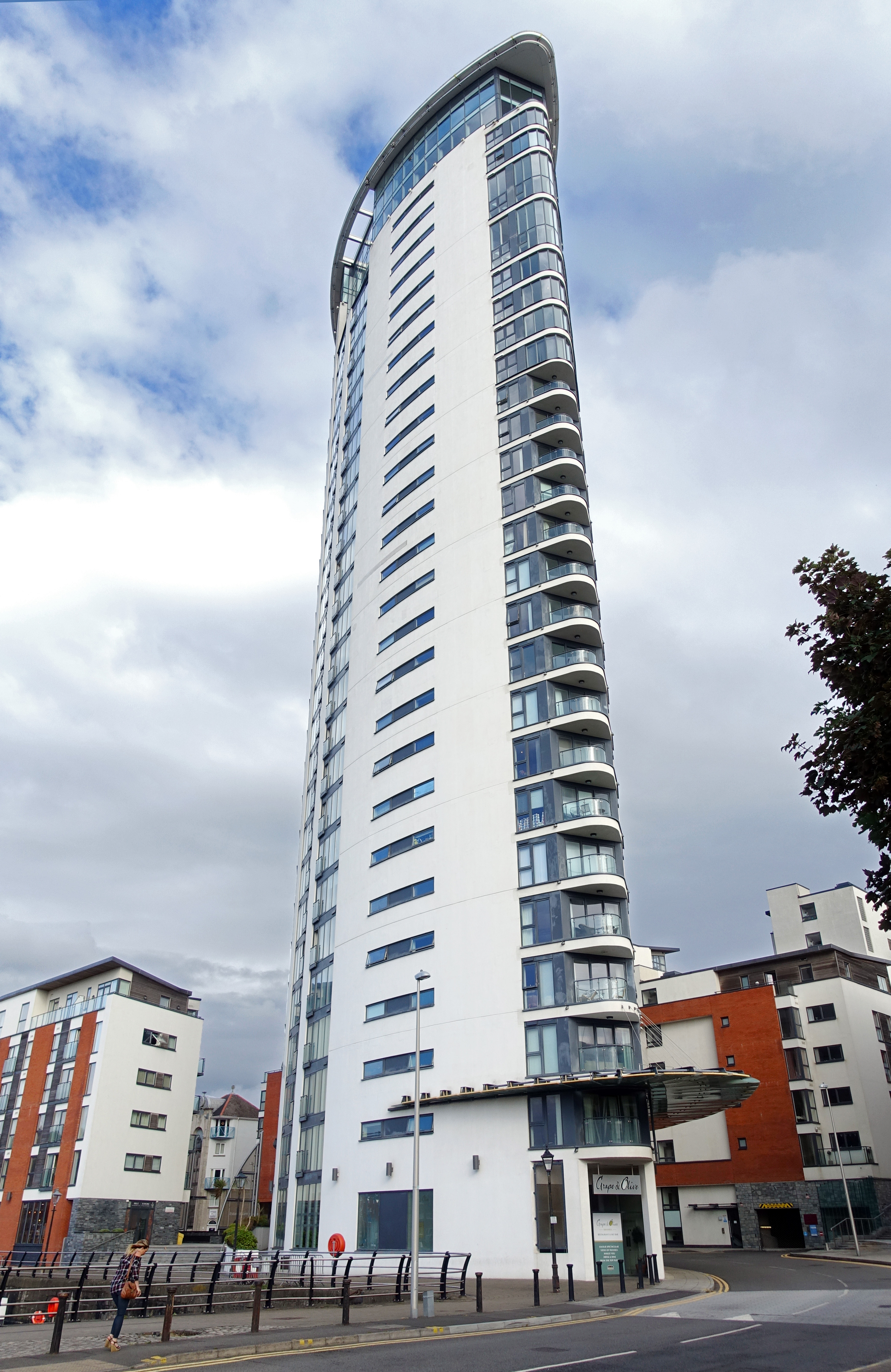 The Tower, Swansea.